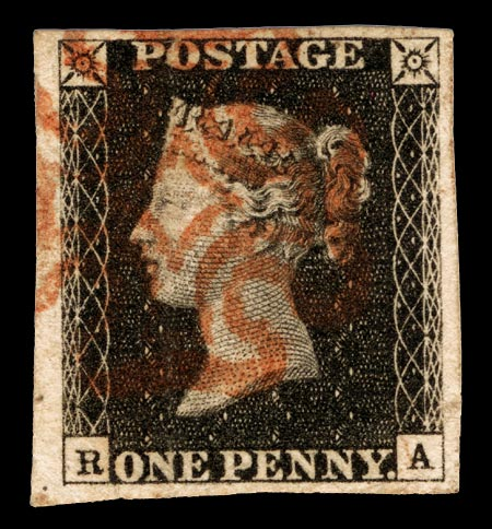 1840 Penny Black with red Maltese Cross cancellation